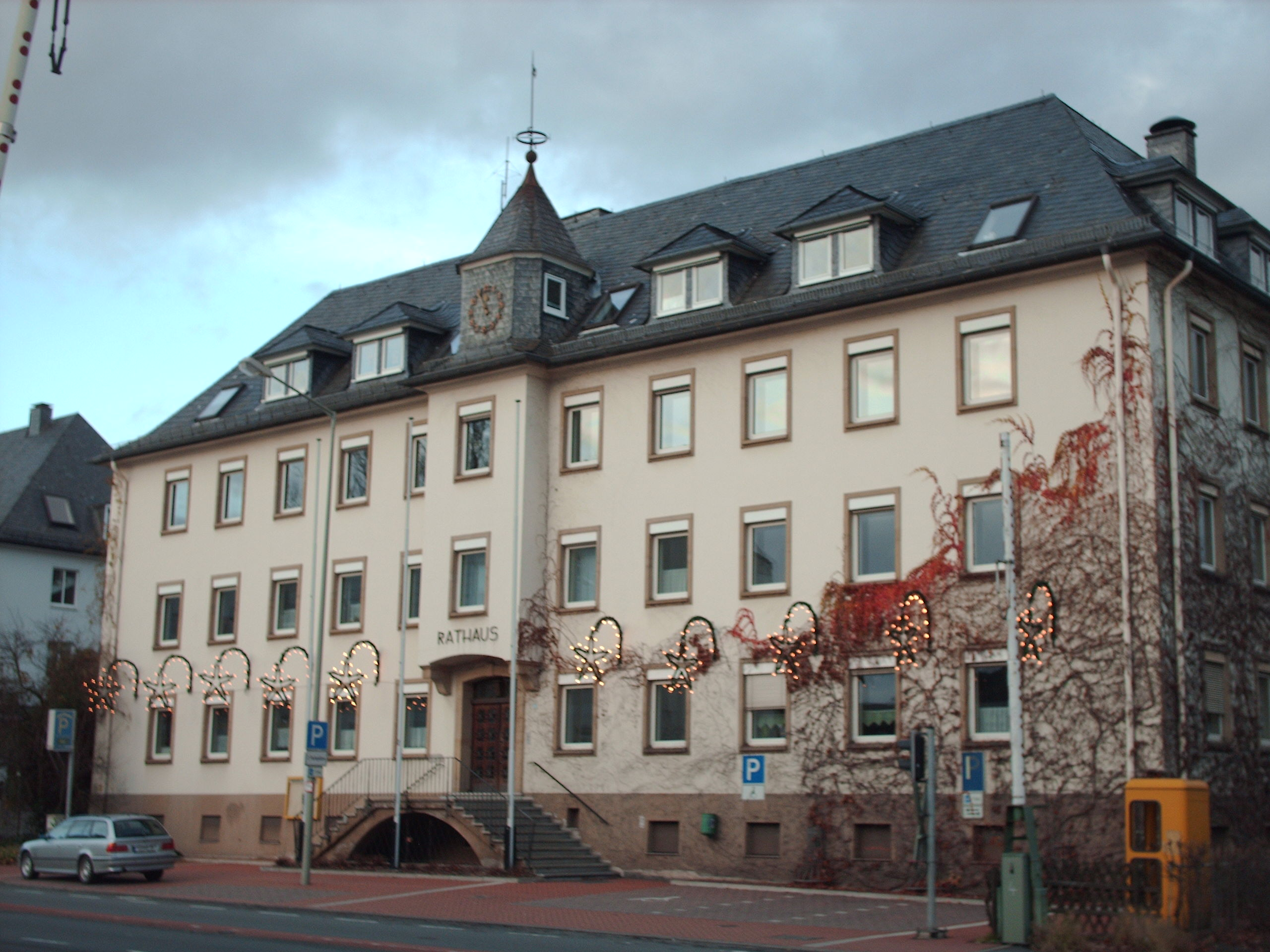 Town hall, Kreuztal, Germany check usage